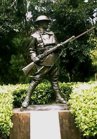 Statue in Hong Kong Park, Admiralty, Hong Kong. Submitted by Simon Cheung, 2 Oct 2001.